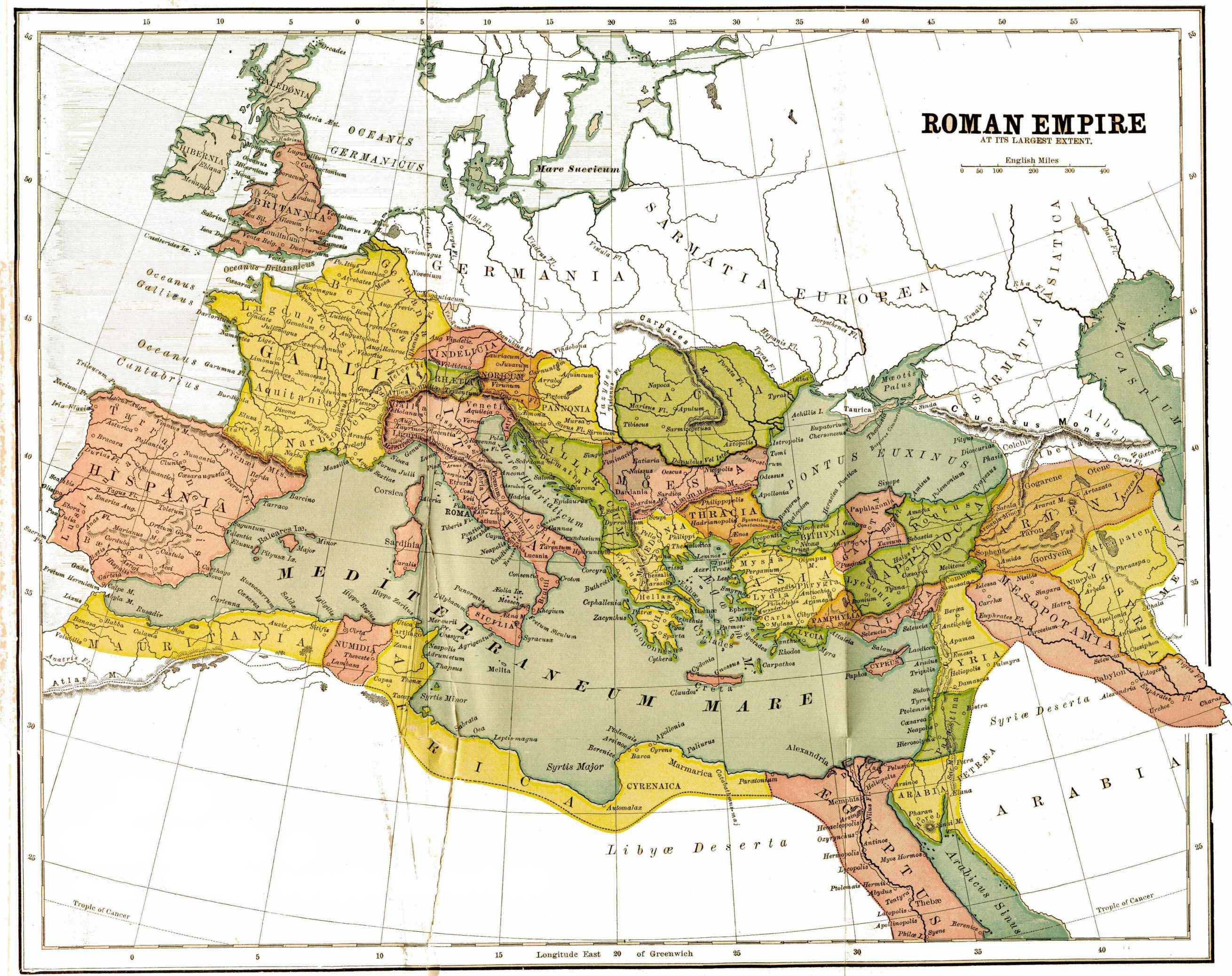 map of the Roman Empire, with provinces, in 150 AD